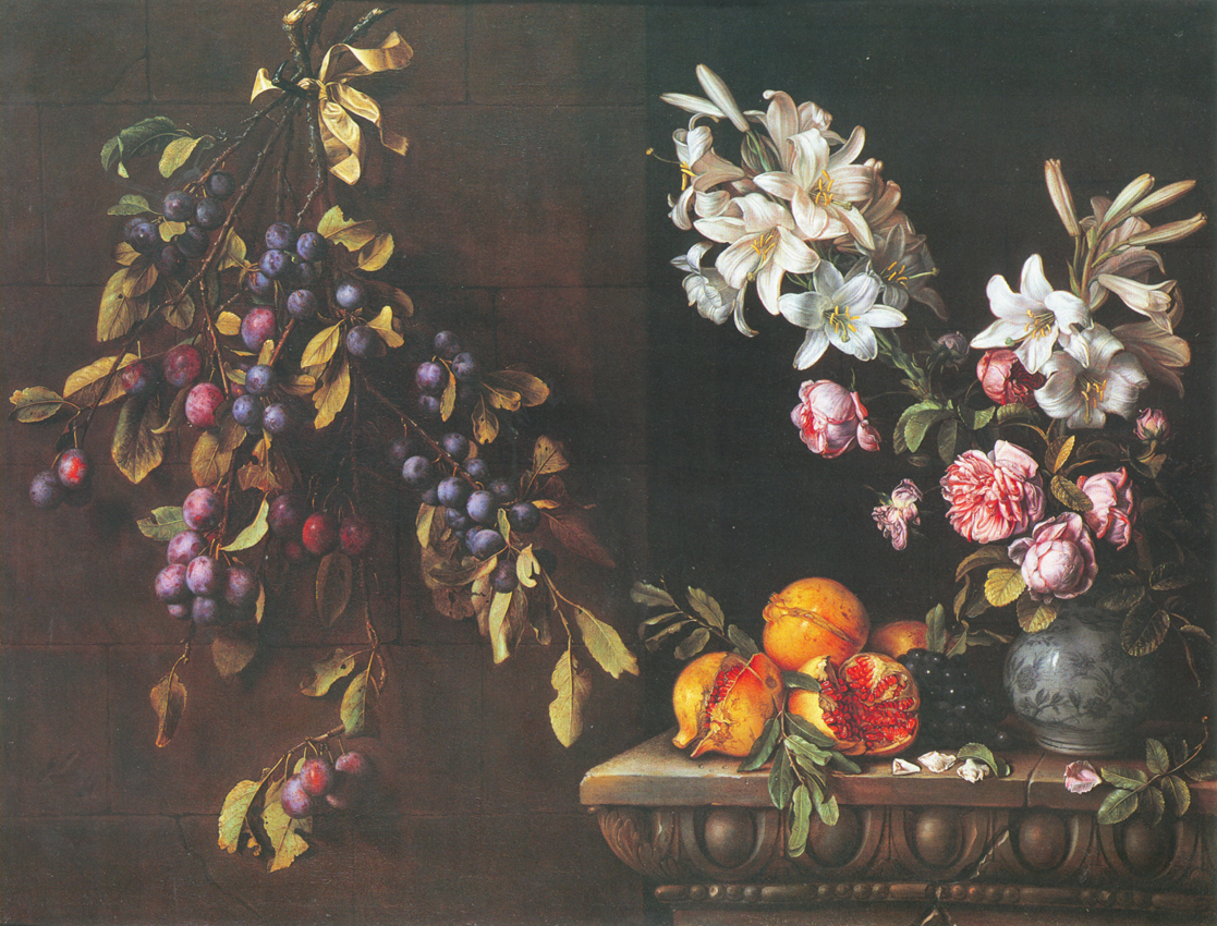 Still life with plum branch hanging from a wall, pomegrenates and vase of lilies on a carved end table (1663).